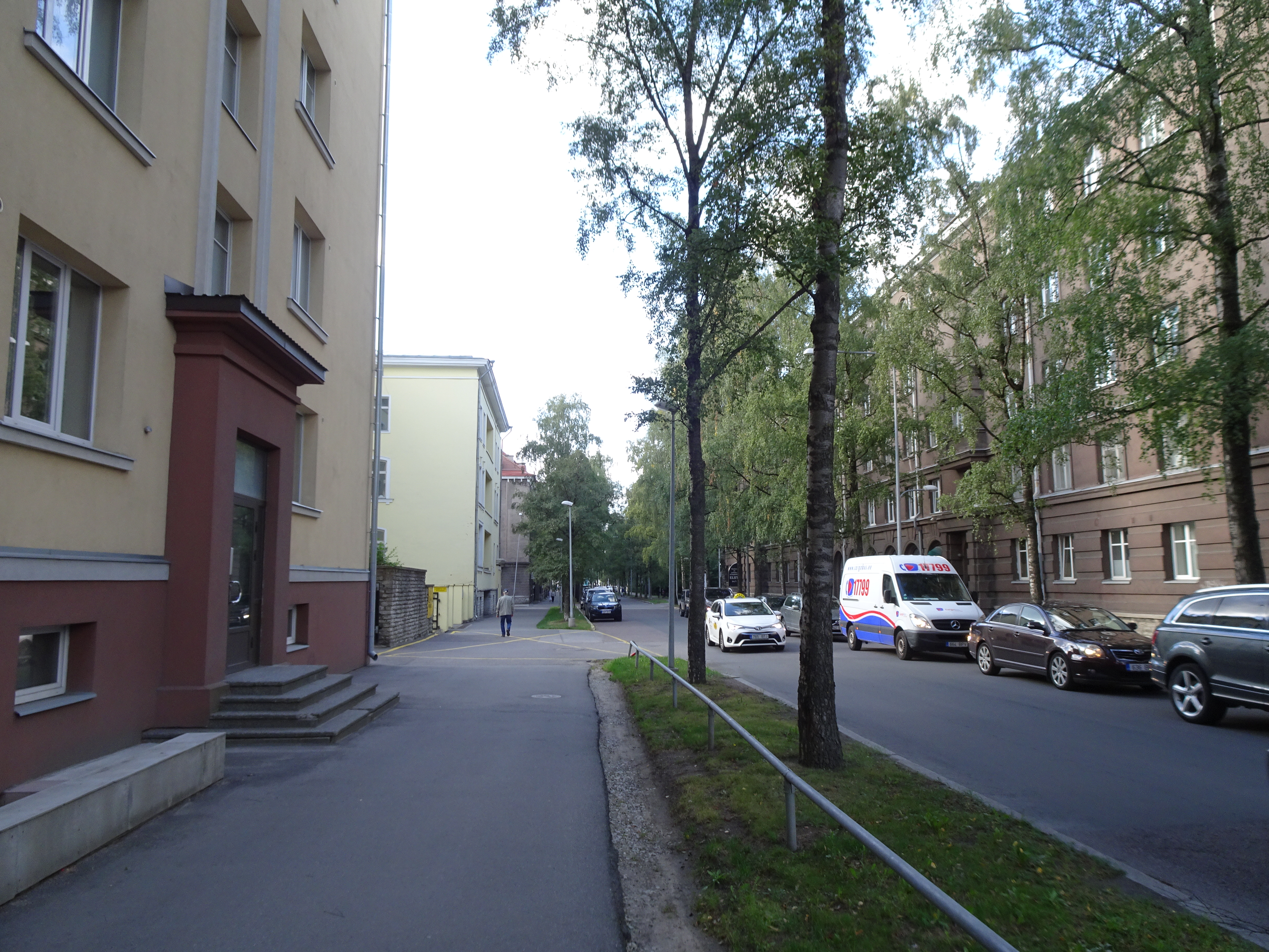 Lembitu Street in Tallinn, Estonia